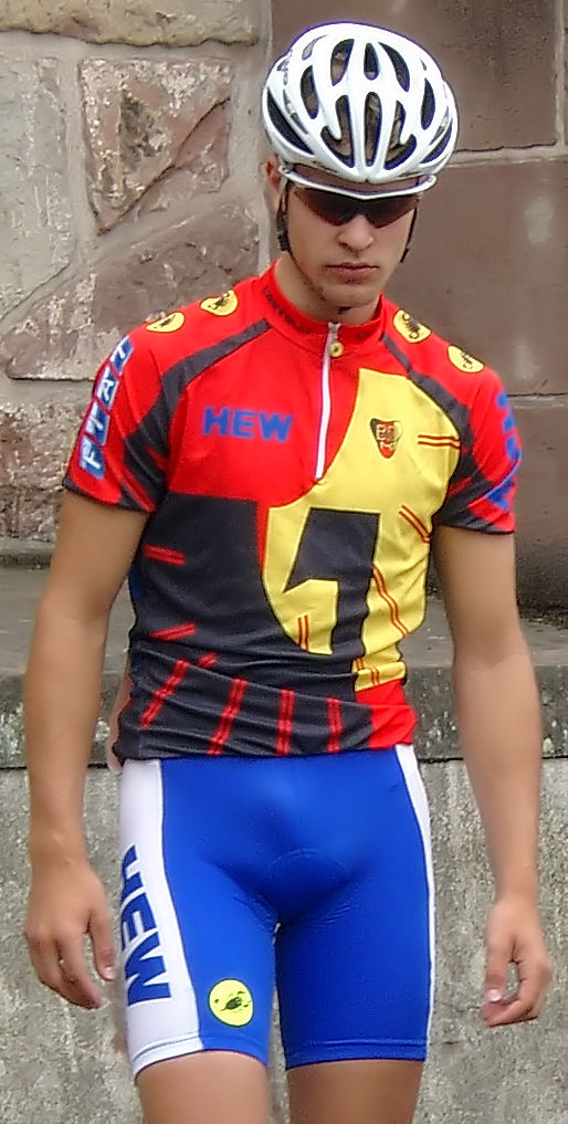 Felix Rehberger